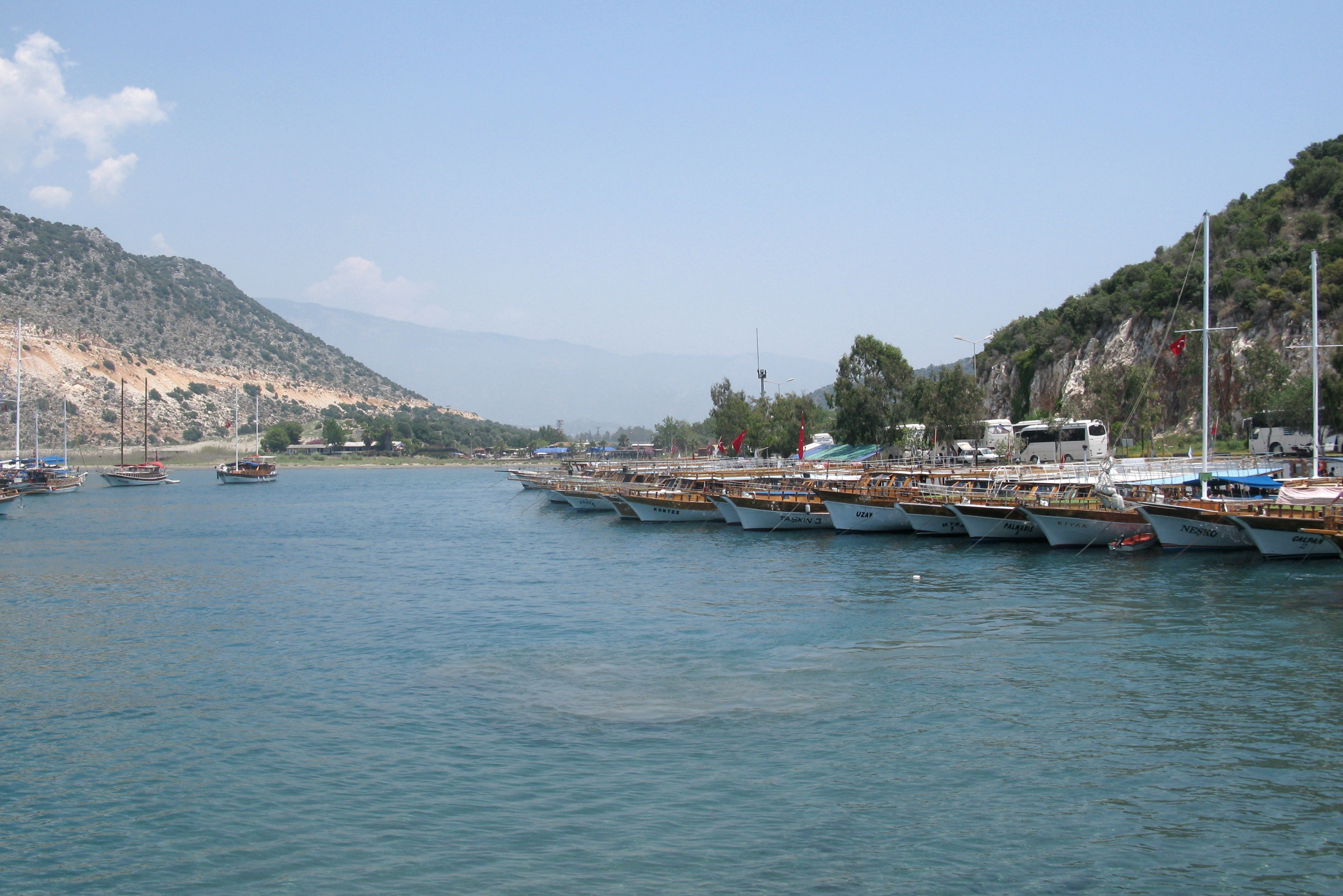 Gulets at Andriake in Myra, Province of Antalya, Turkey